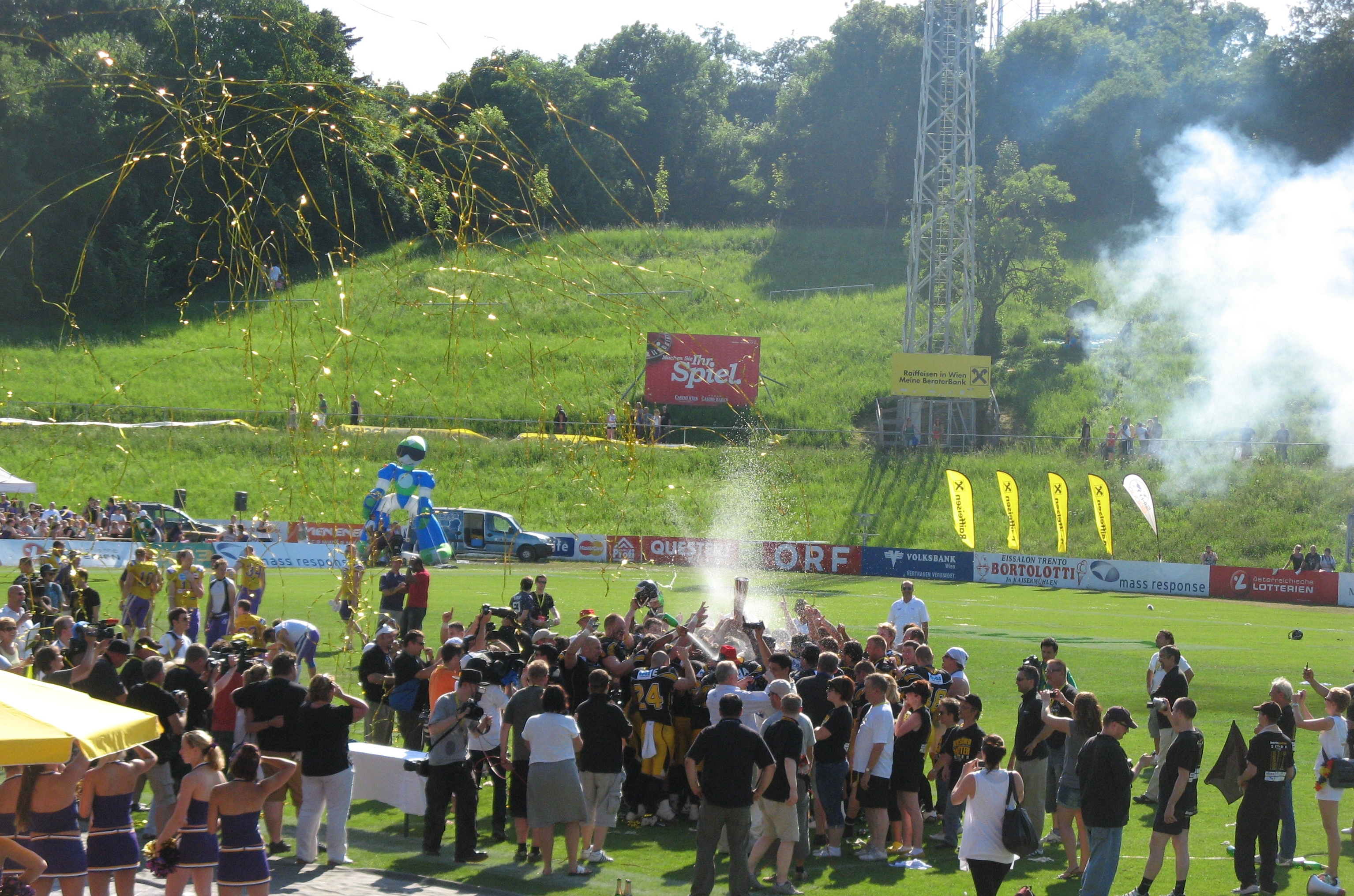 Eurobowl XXIV: Raiffeisen Vikings Vienna gegen Eurobowl XXIV: Raiffeisen Vikings Vienna vs. Berlin Adler (31:34), @ Hohe Warte Stadium Vienna Adler victory celebration